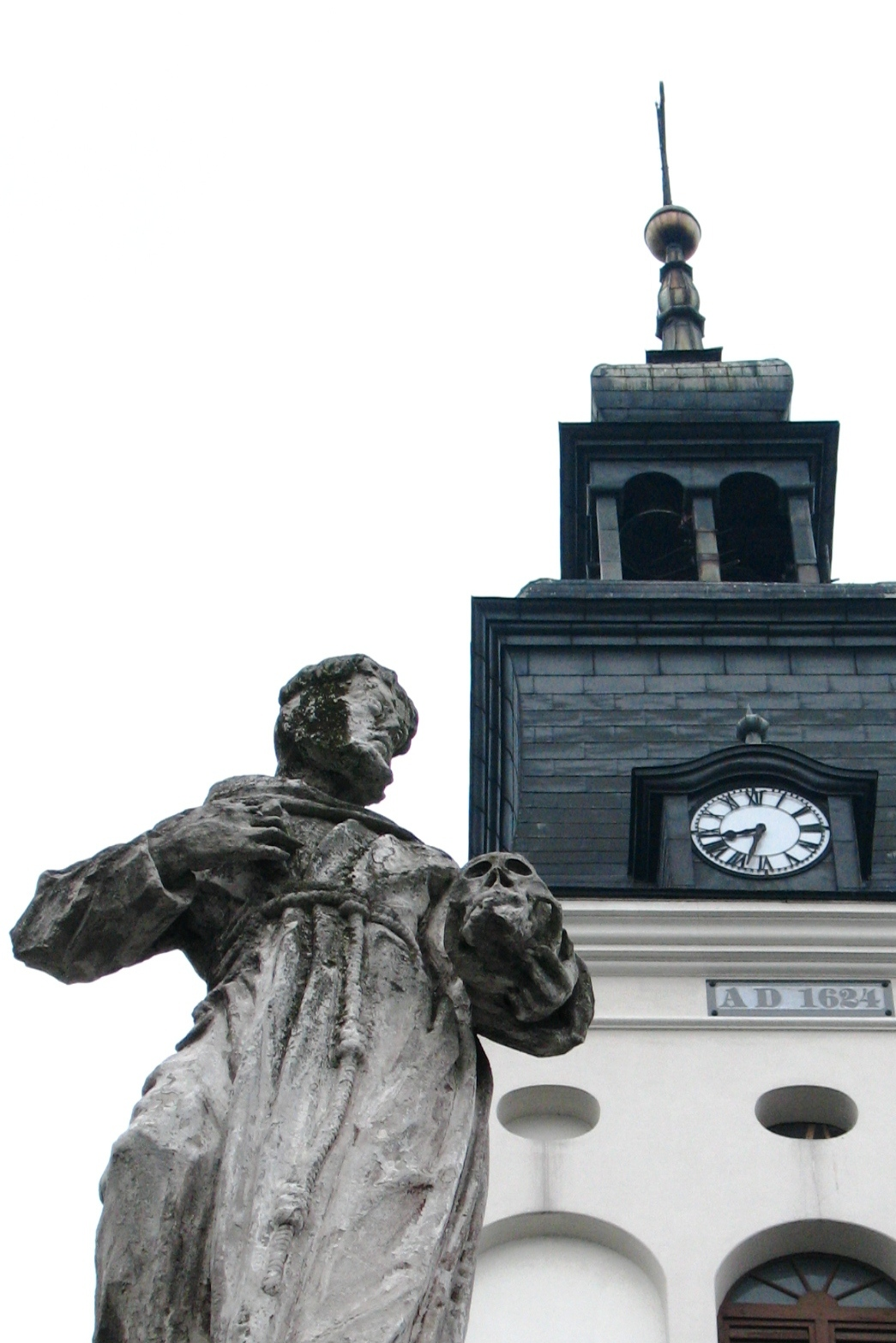 Baroque statue of Monk (XVIII century),Church of the Exaltation of the Holy Cross in Piotrków Trybunalski